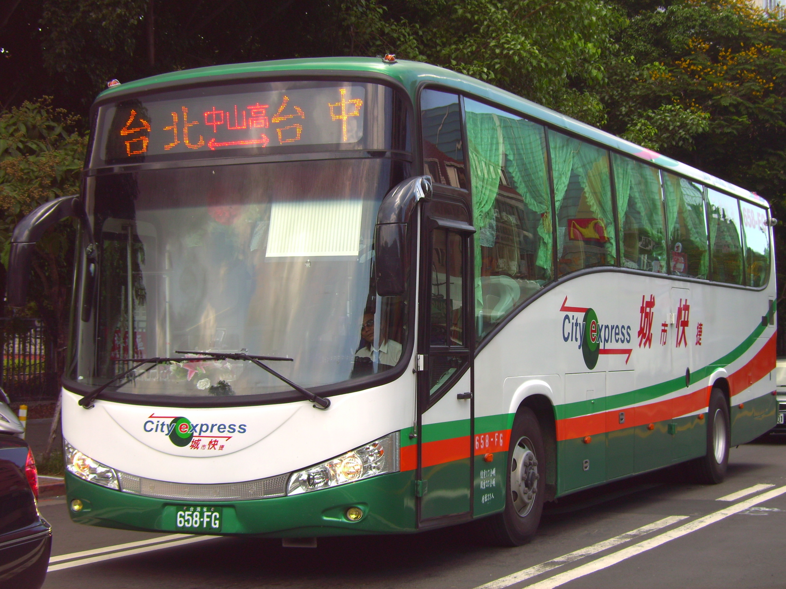 "Taipei - Taichung" City Express freeway bus by Sanchung Bus Bus.中文（台灣）: 三重客運「城市快捷」，包含台中客運、首都客運皆有此一新款車體。